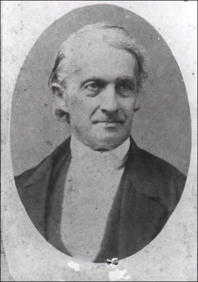 A portrait of Reverend John Kilian (1811-1884)